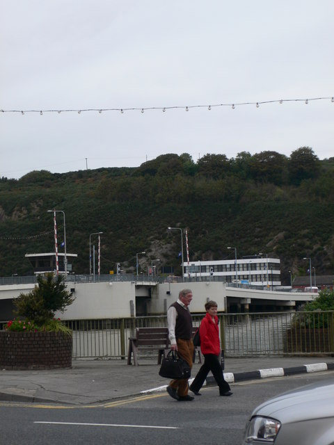 Rice Bridge, Waterford Connecting Waterford with the rest of Ireland, the Rice Bridge was erected in the 1980's over the River Suir.